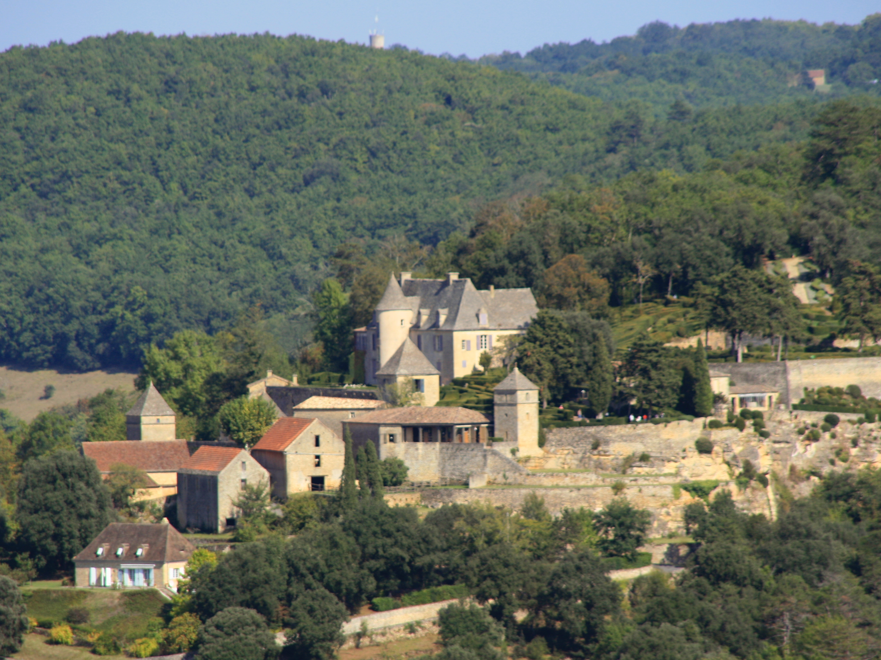 Château de Marqueyssac, photographed from the château of Castelnaud-la-Chapelle. Vézac, Dordogne, Aquitaine, France.